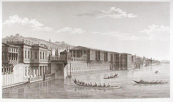 Palace of Hatice, mother of Sultan Mehmed IV